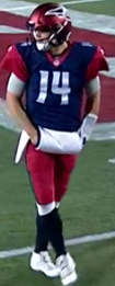 Quarterback Christian Hackenberg of the Memphis Express playing in 2019.